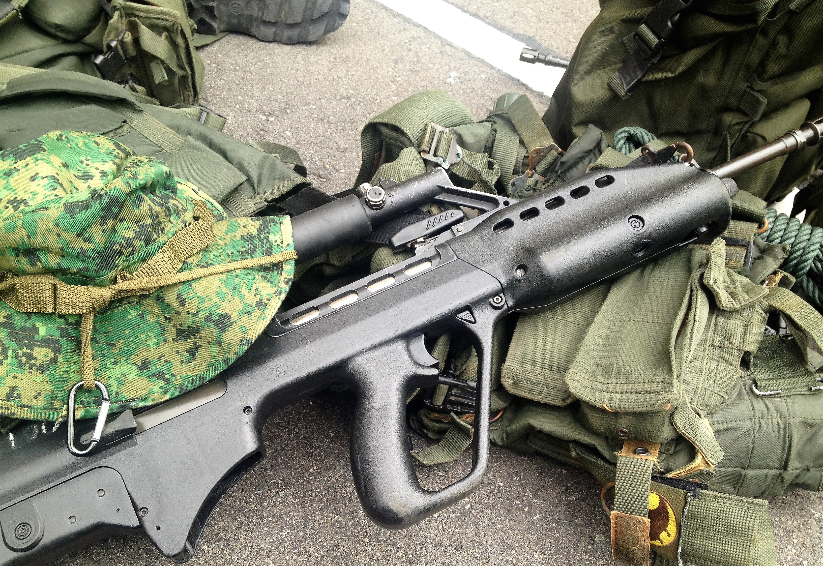 Jungle Hat wore by reconnaissance soldier and SAR 21 Assault Rifle